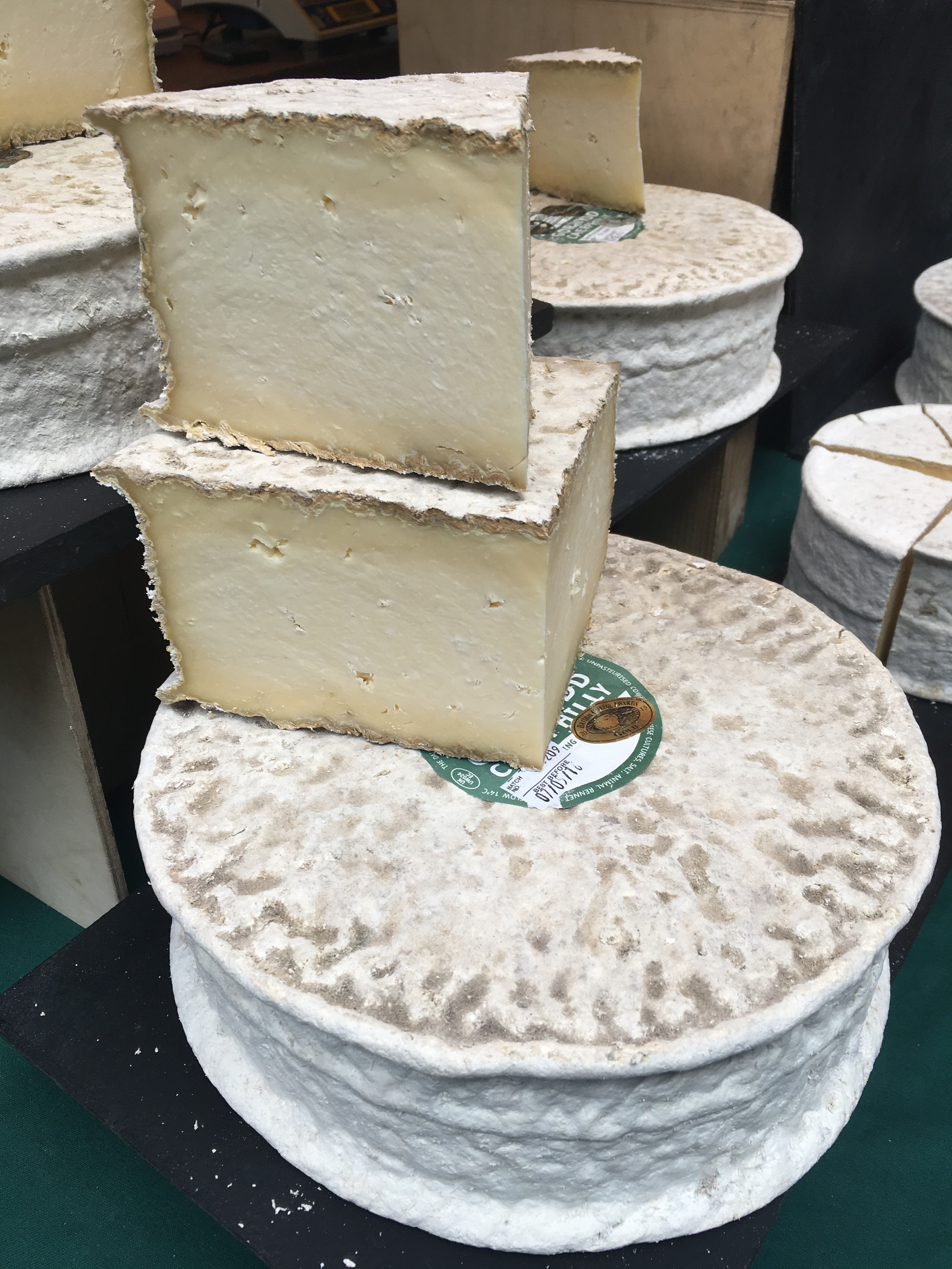 A photograph of wheels of Caerphilly cheese, taken at the Gwynedd Caerphilly stall at Borough Market, London.